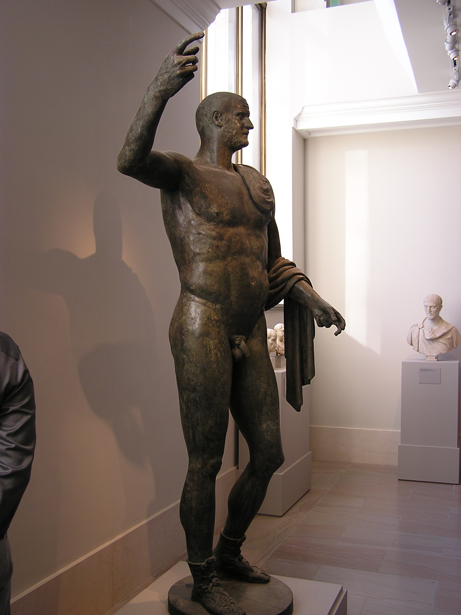 Trebonianus Gallus from the time of his reign as Roman Emperor (251-253 AD), the only nearly-complete large-scale Roman bronze to survive from the 3rd century. The statue is 2.413 meters in height. Surfaced in the early 19th century, said to have been found at Basilica of St. John Lateran in Rome. There is a contrast between the style of the body, which recalls the Alexander the Great of Lysippos, and the more realistic head. The original is thought to have held a parazonium in the left arm, and a spear in the right hand. At least ¾ of the work is original. Reconstructed parts include the base, the right foot, the mantle (based on evidence), the left upper arm, part of the upper surface around the right shoulder and bicep, the groin, and parts of the right torso. It appears that the left foot may originally be from another ancient statue. Photographed at the Metropolitan Museum of Art in New York City. Contextual information derived from museum placard and their website.